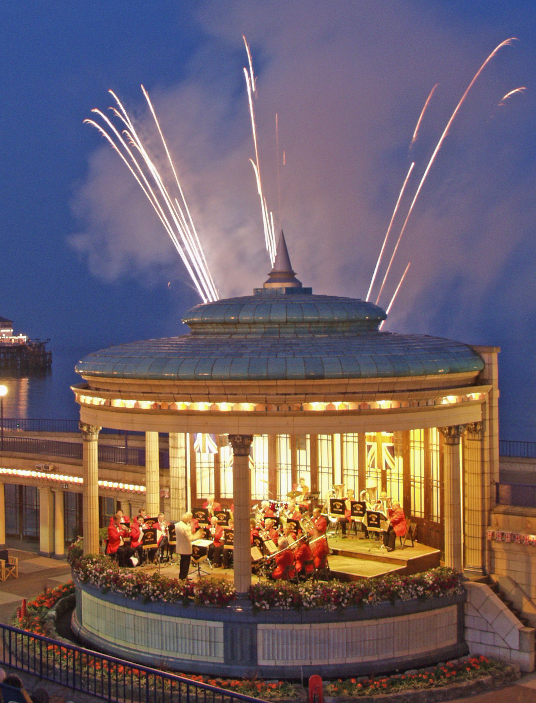 Eastbourne Bandstand 2005, no copyright, free for public use.